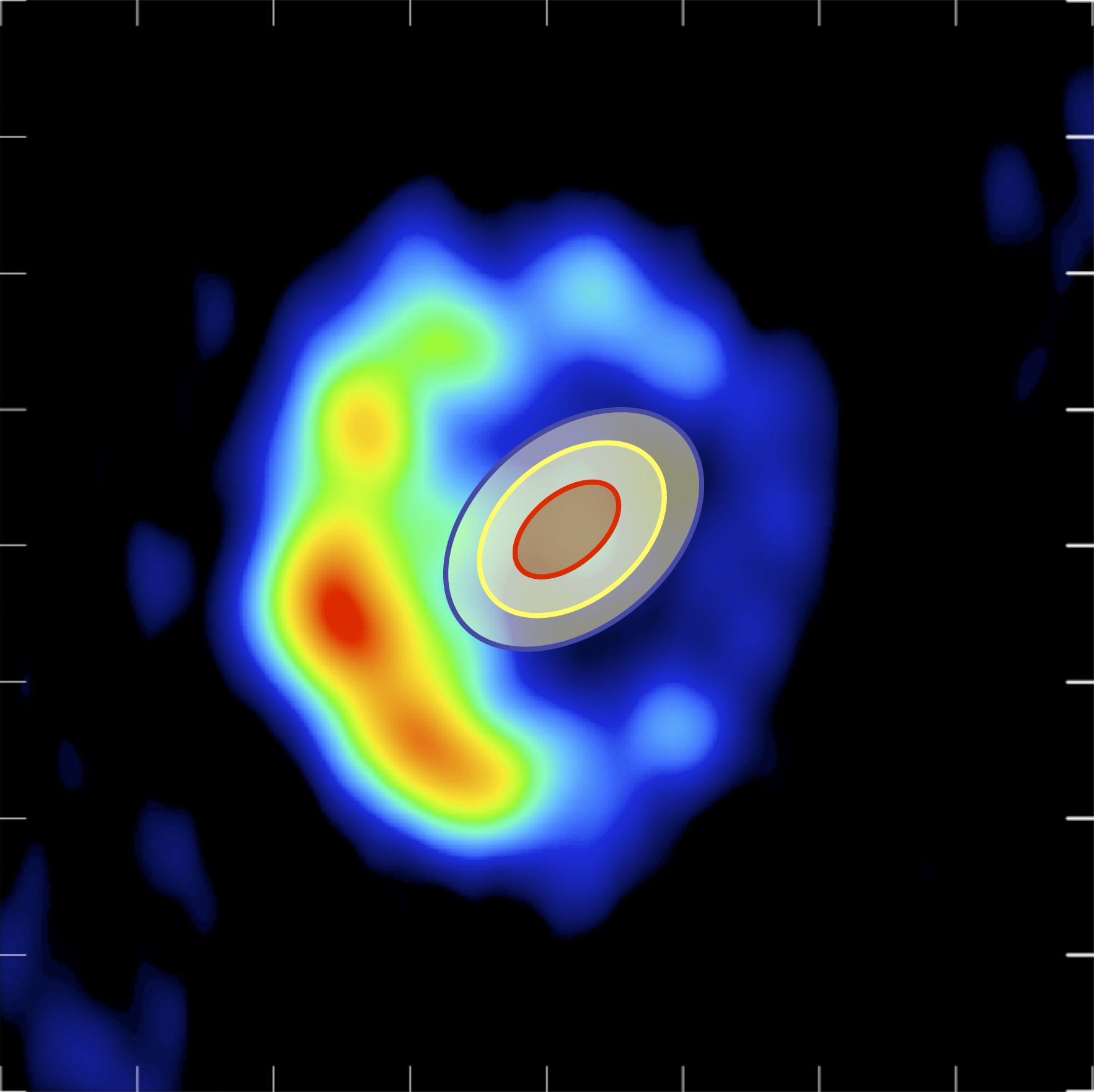 Radio map and VLTI measurements of the outburst of the binary system RS Ophiuchi. The characteristics dimensions measured with AMBER on the VLT Interferometer are shown as the blue, yellow and red lines - corresponding to different wavelengths. They are overplotted on a radio map of the same object obtained with the VLBA by O'Brien and colleagues. The VLTI data were obtained 5.5 days after the outburst, while the radio observations were done 13.8 days after the outburst. Clearly the material released by the outburst has been expanding.